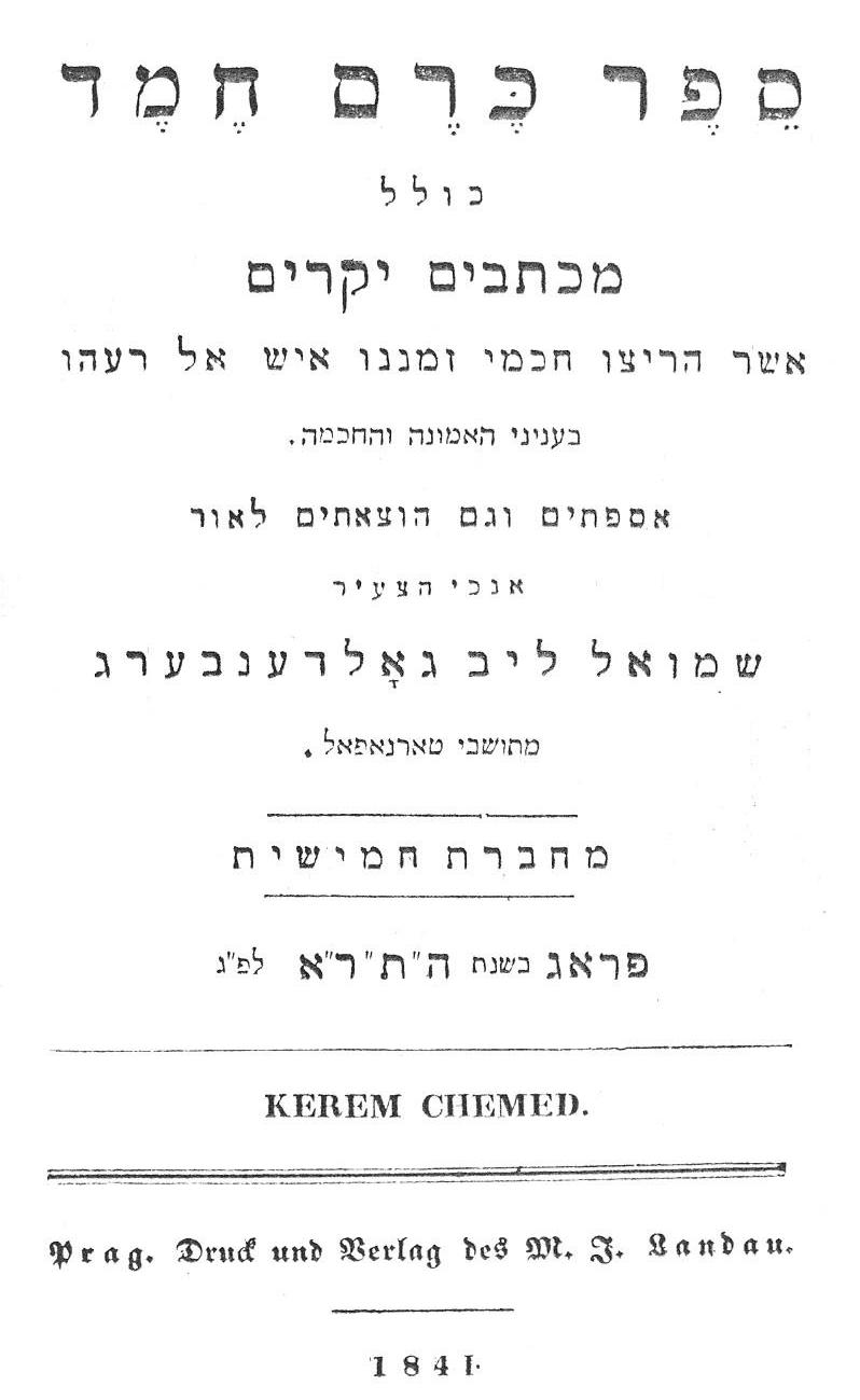 front page of "Kerem Hemed", Hebrew periodical, edition of Prag 1841